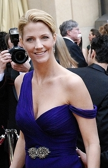 Nancy Walls at the 2007 Academy Awards